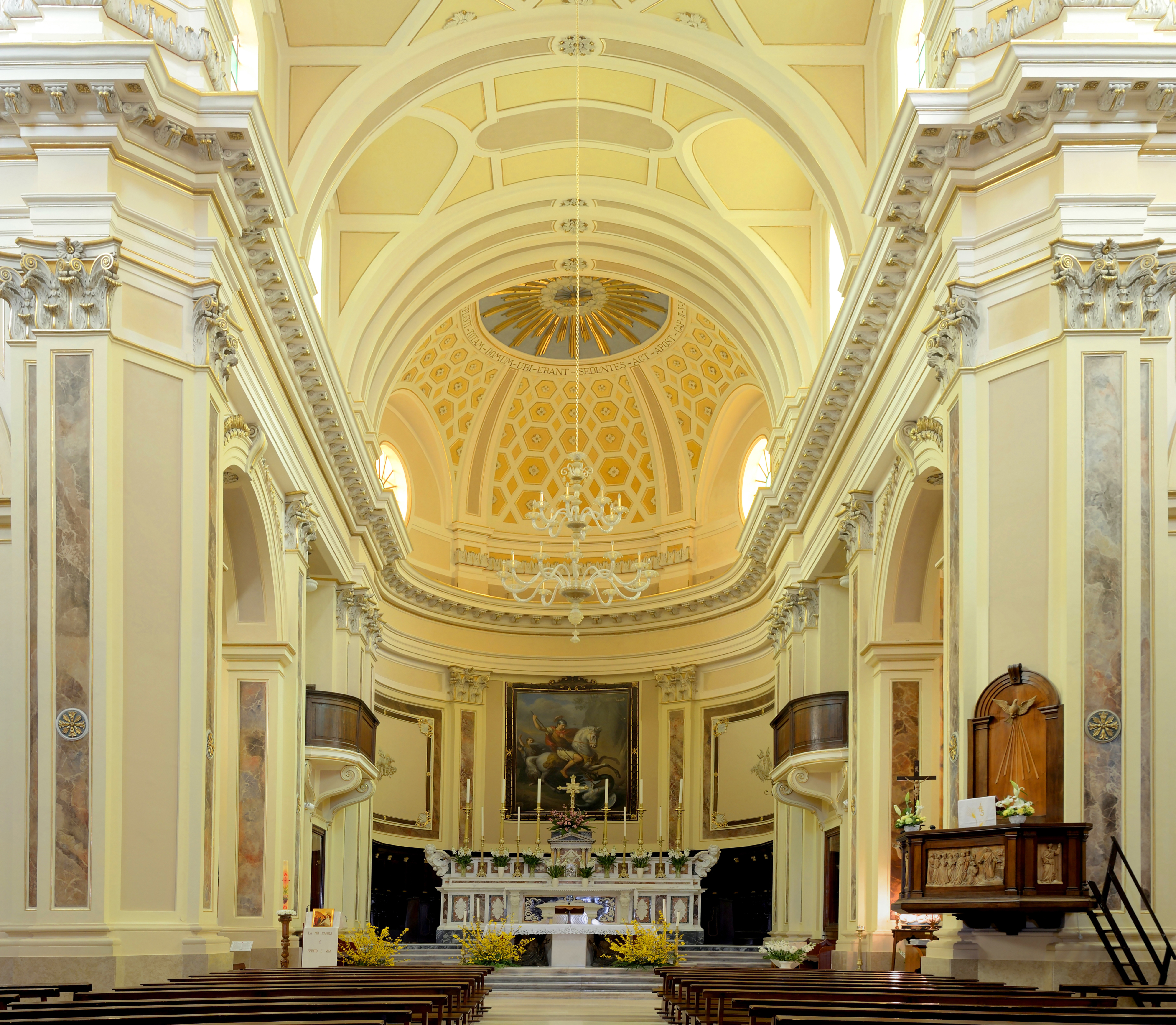 Internal of St. George the Martyr in Locorotondo